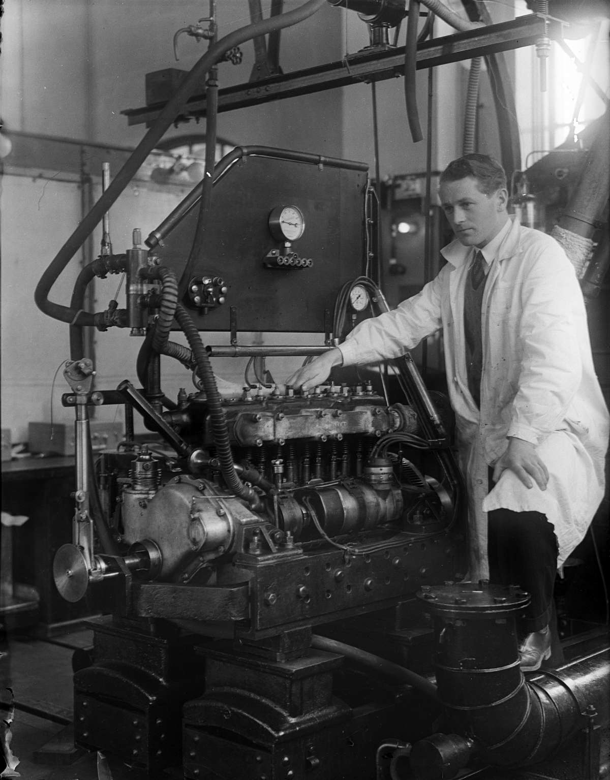 This is a picture taken in 1933 of a Norwegian engineering student at the Norwegian Institute of Technology, which is a predecessor of the Norwegian University of Science and Technology, in Trondheim, Norway.